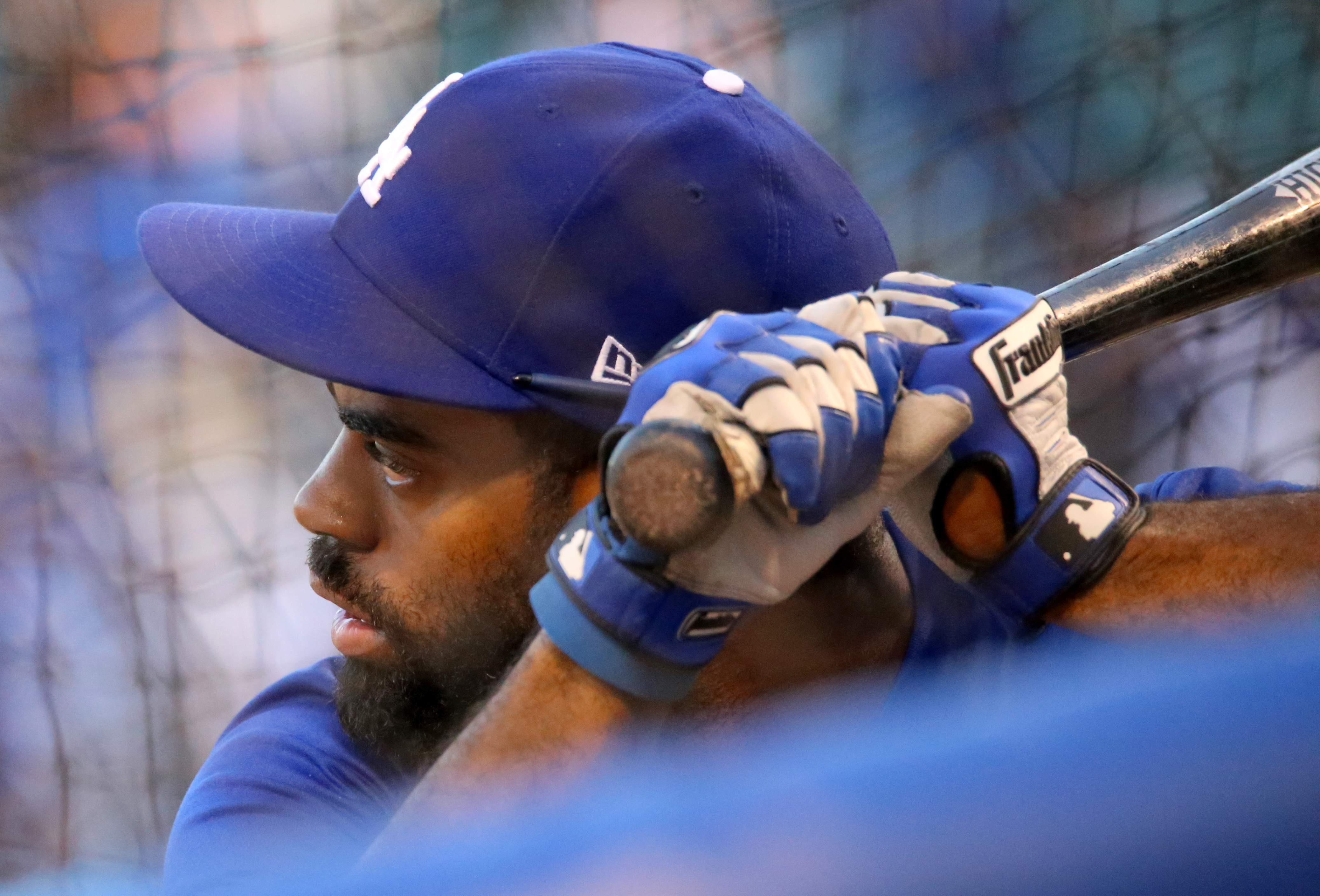 Dodgers outfielder Andrew Toles takes batting practice before NLCS Game 6.